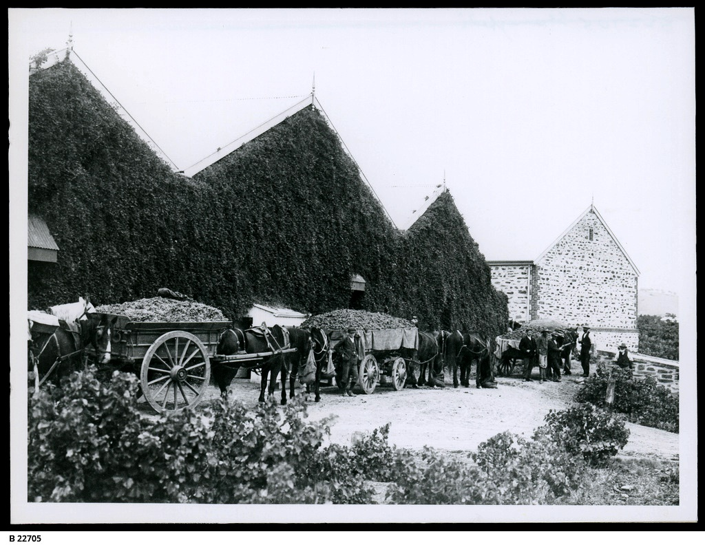 Stonyfell vineyards - horsedrawn carts bringing the grapes for crushing, c.1920, in the Adelaide foothills east of the city